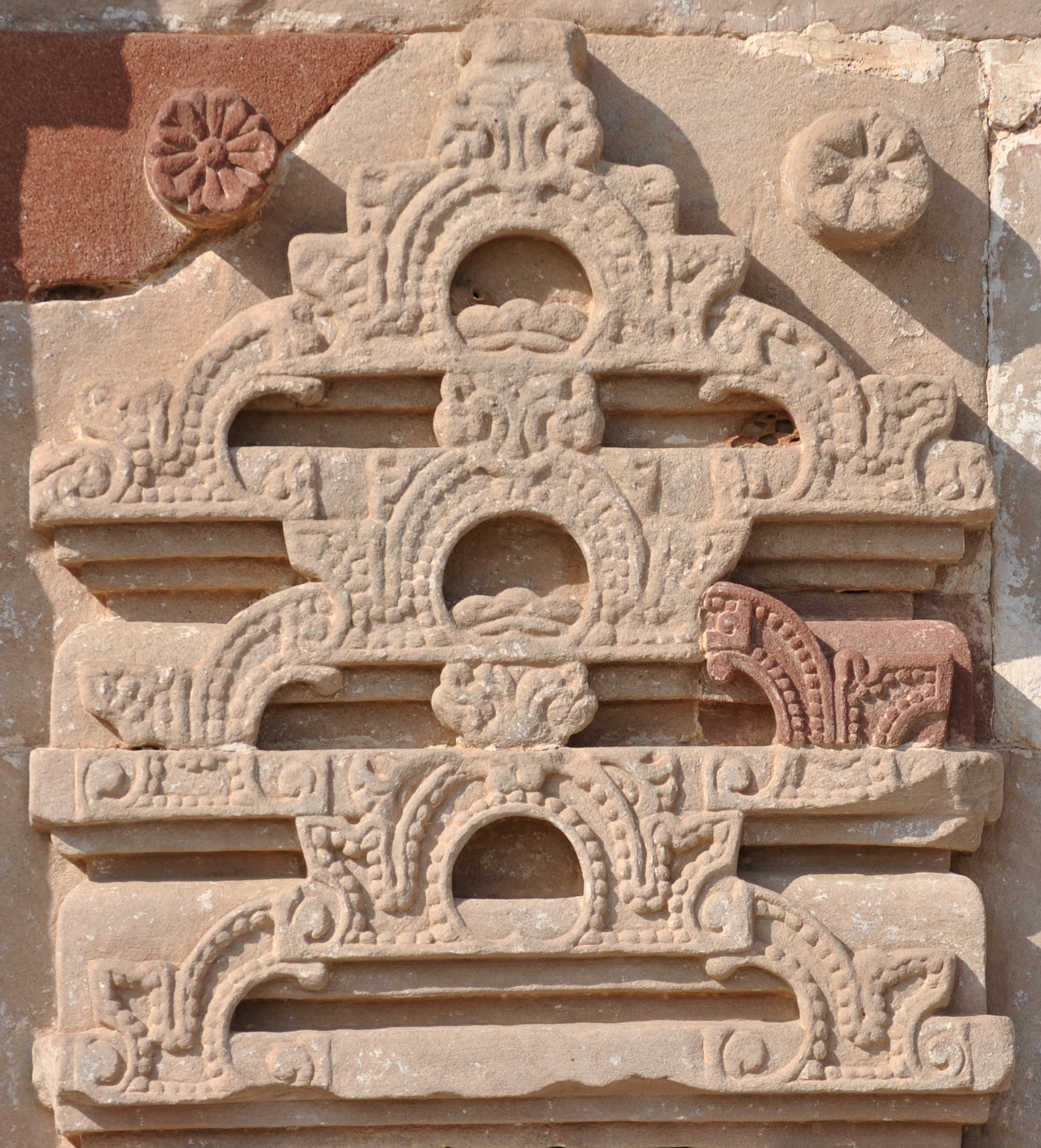 The temple of Osiya-Rajasthan